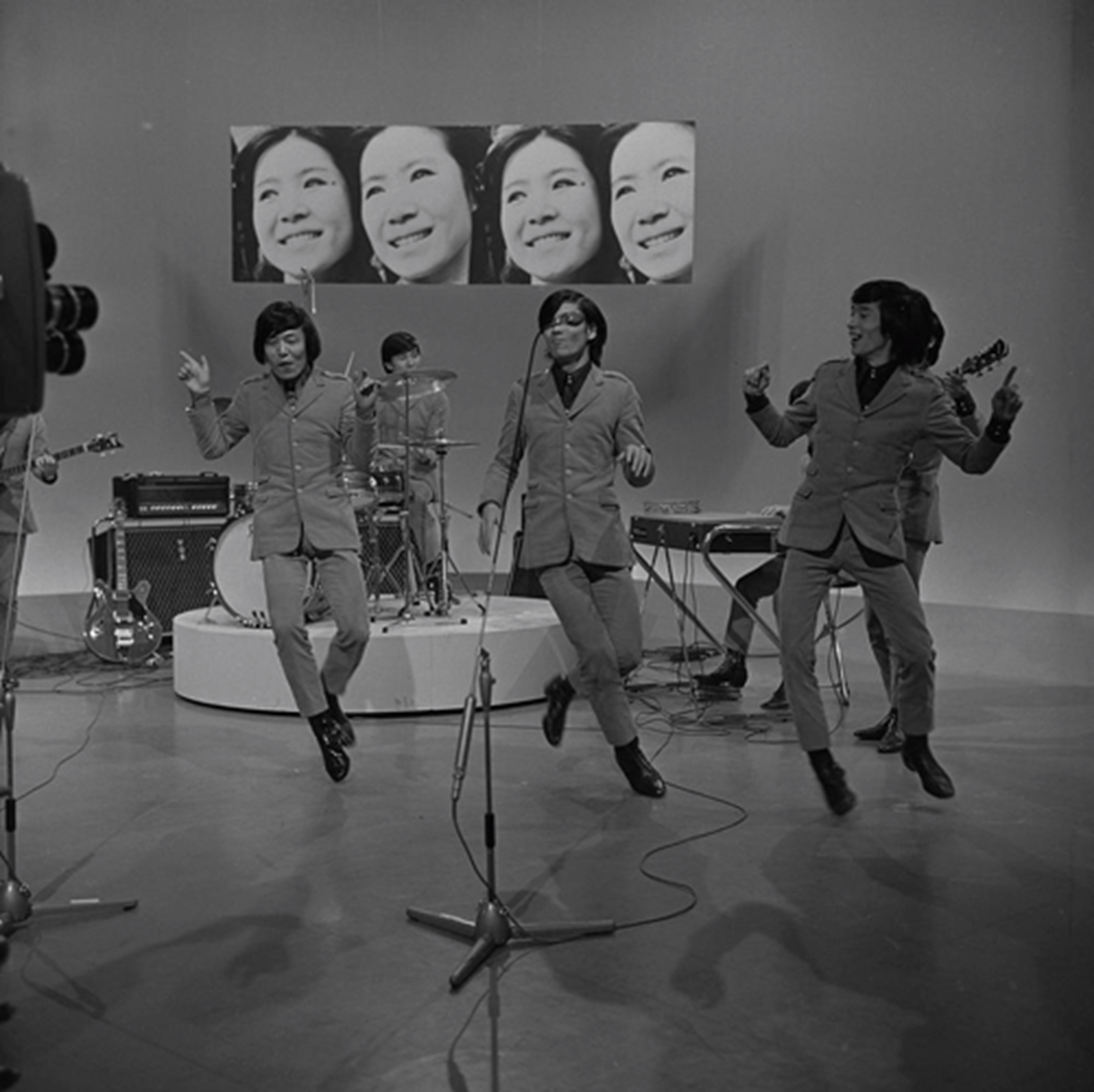 Japanese group The Spiders performing the songs "Sad sunset" en "Boom boom" in Dutch TV programme Fanclub. Registered 12 Nov. 1966, broadcast 18 Nov. 1966.